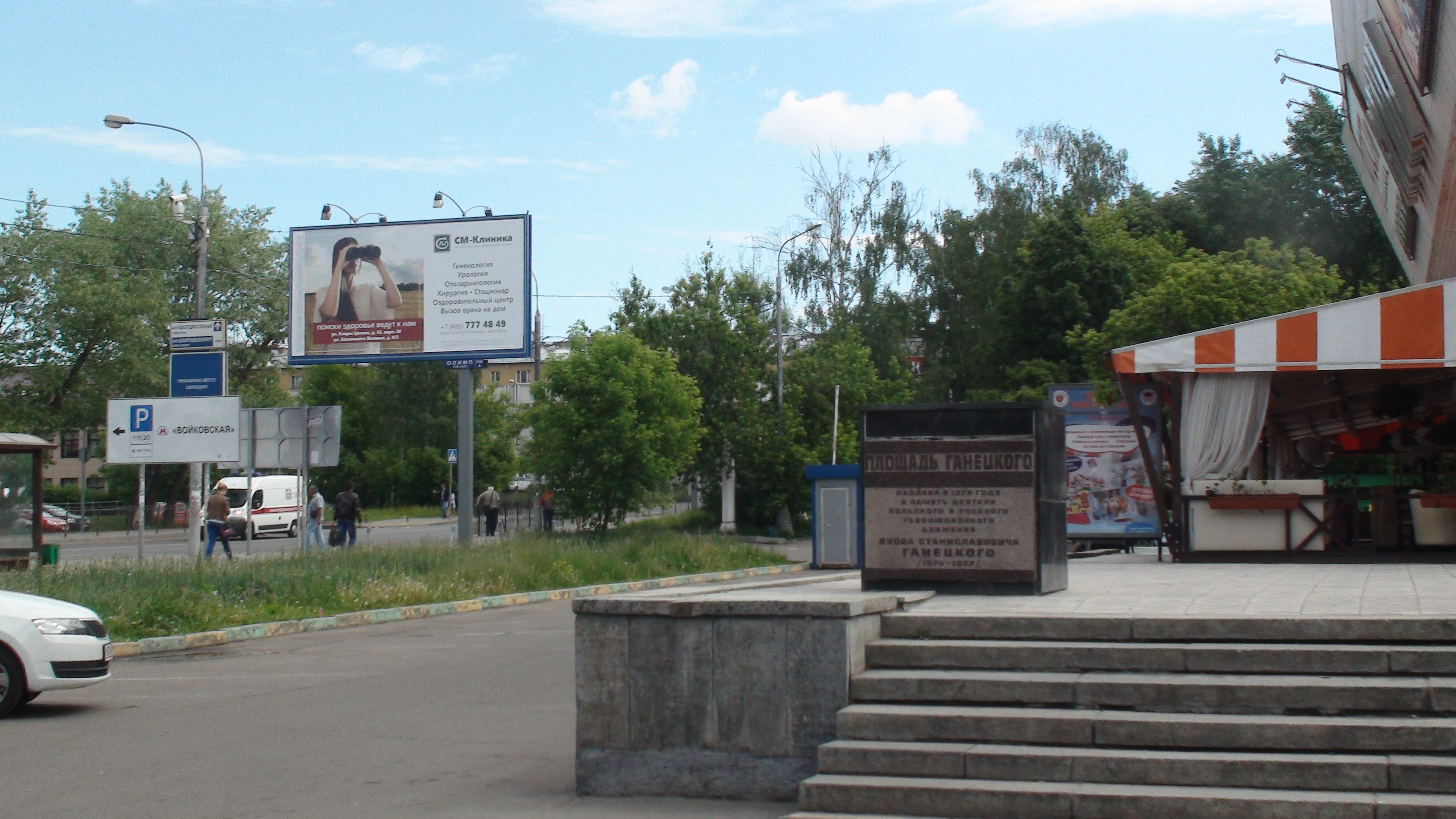 Ganetskogo Square